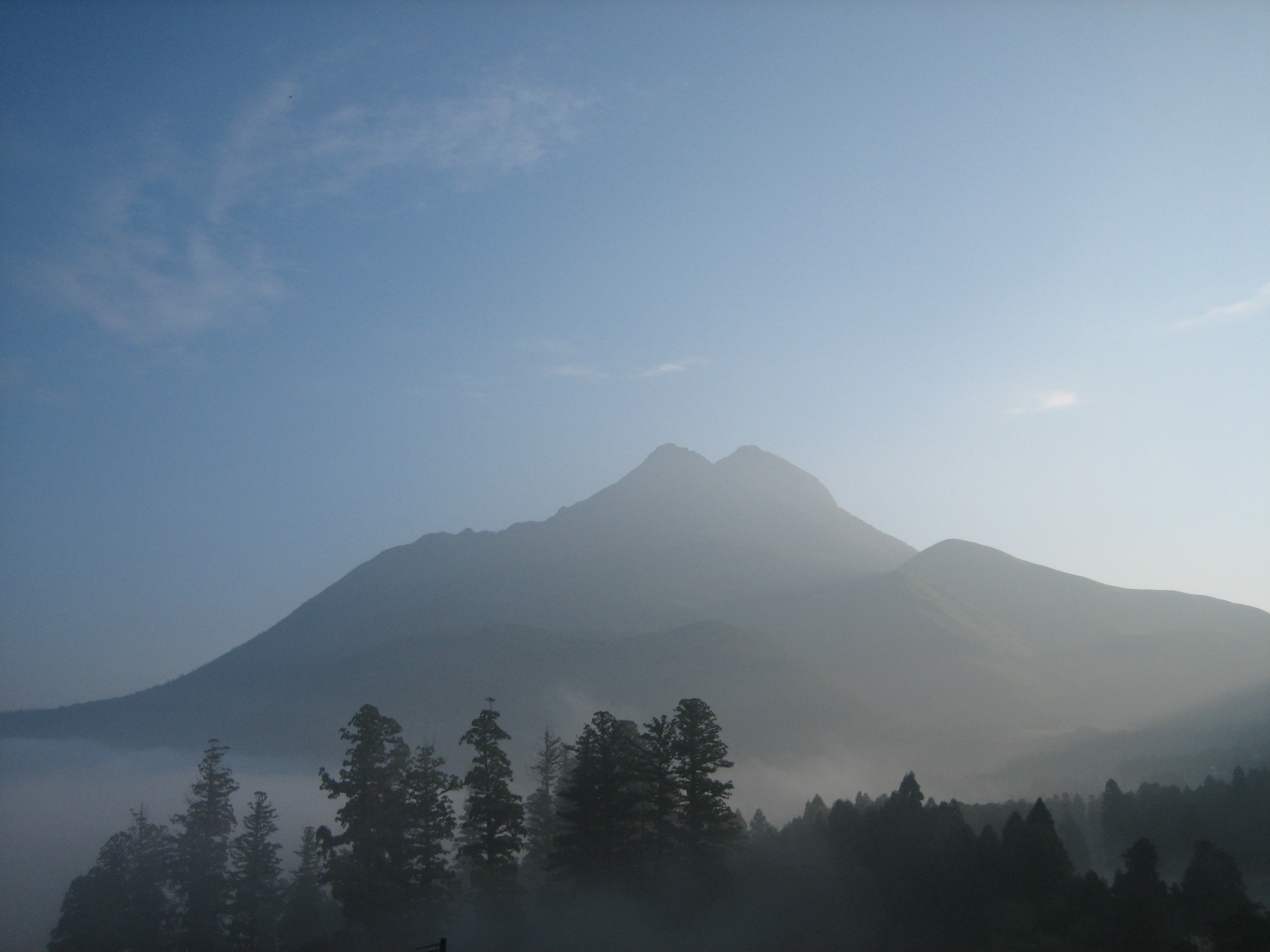 Mount Yufu (Yufu-dake) with morning mist seen from the southwest.